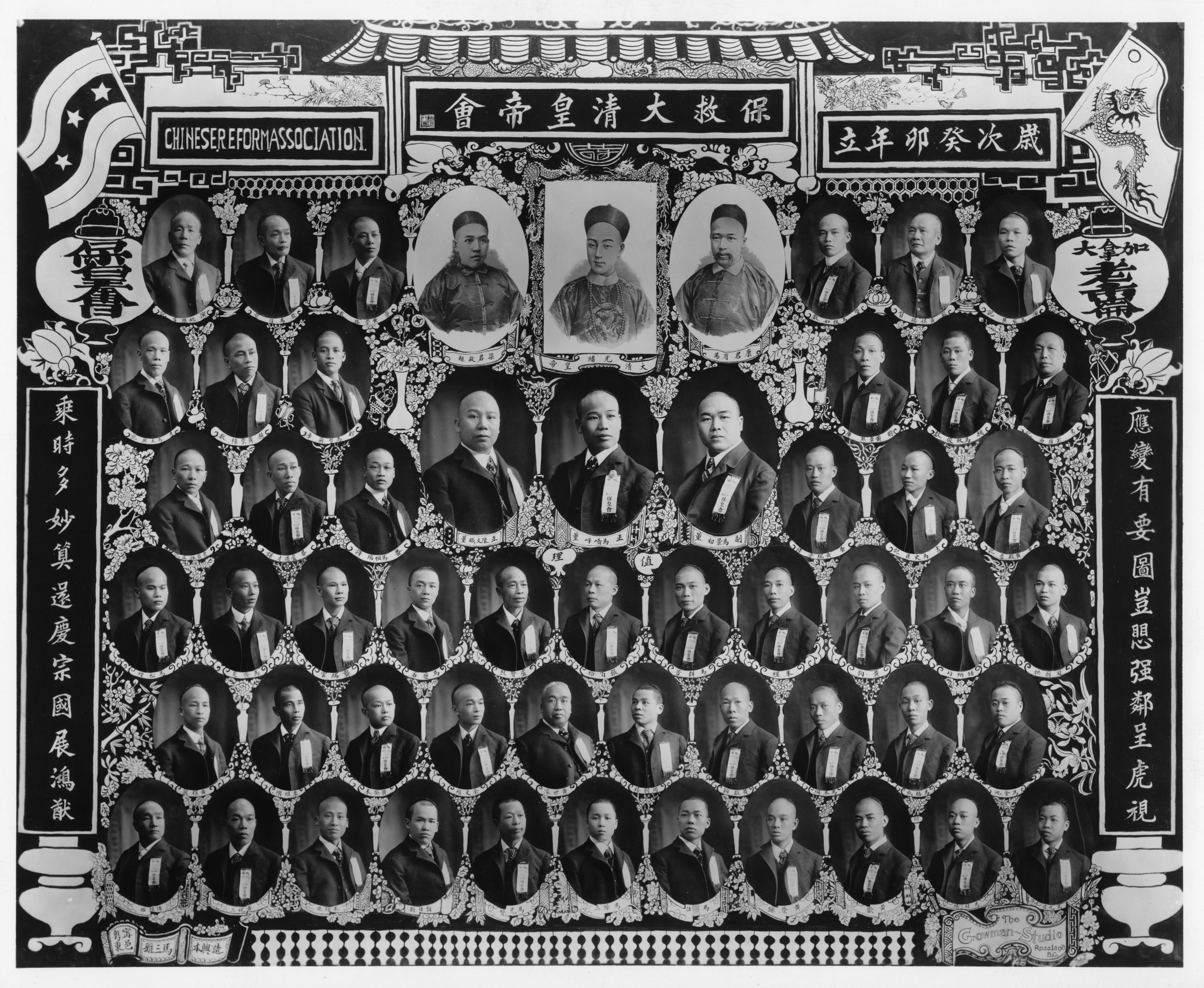 Chinese Empire Reform Association of Canada member portraits